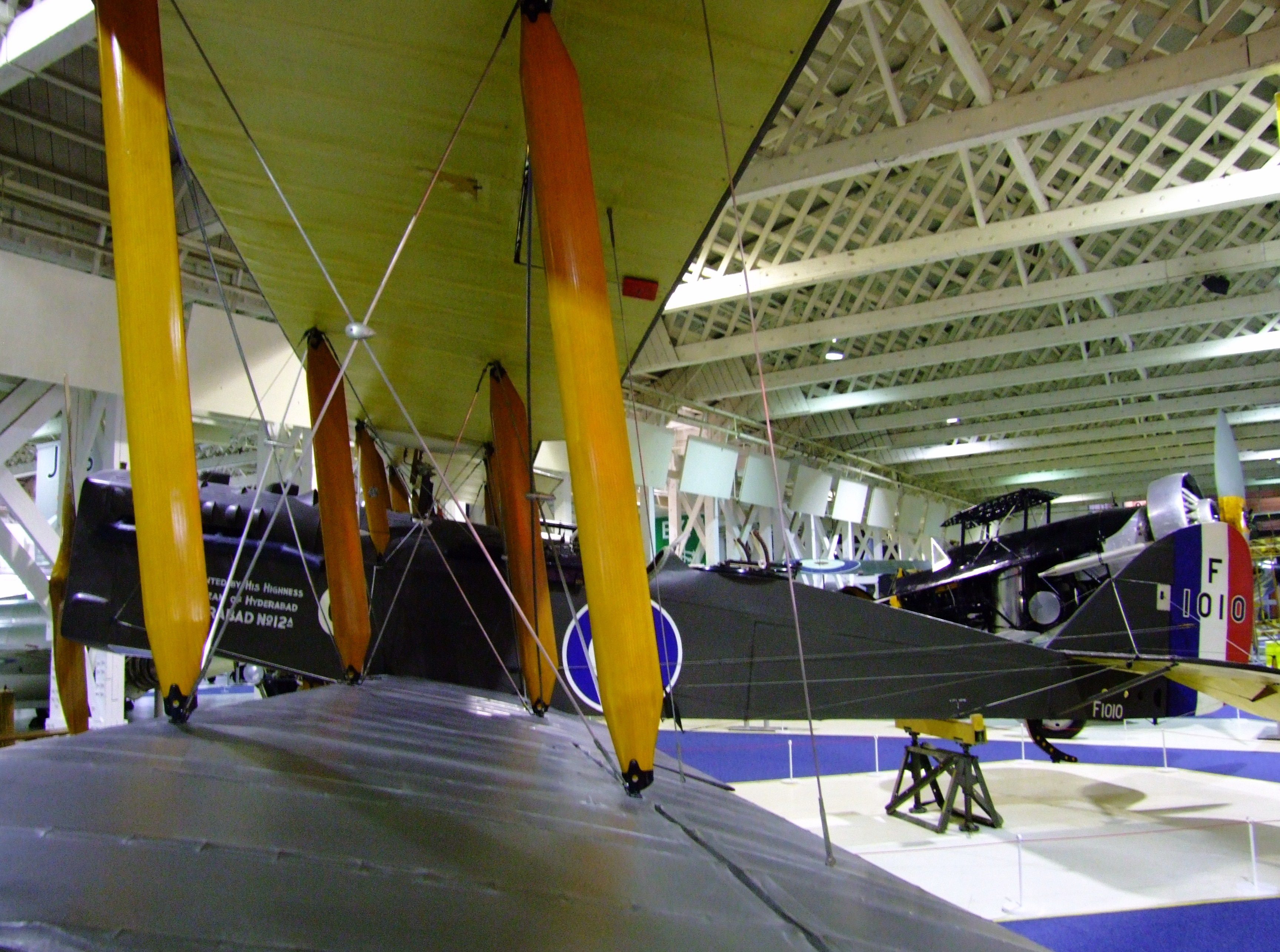 de Haveland DH9A number F1010 at the Royal Air Force Museum London.